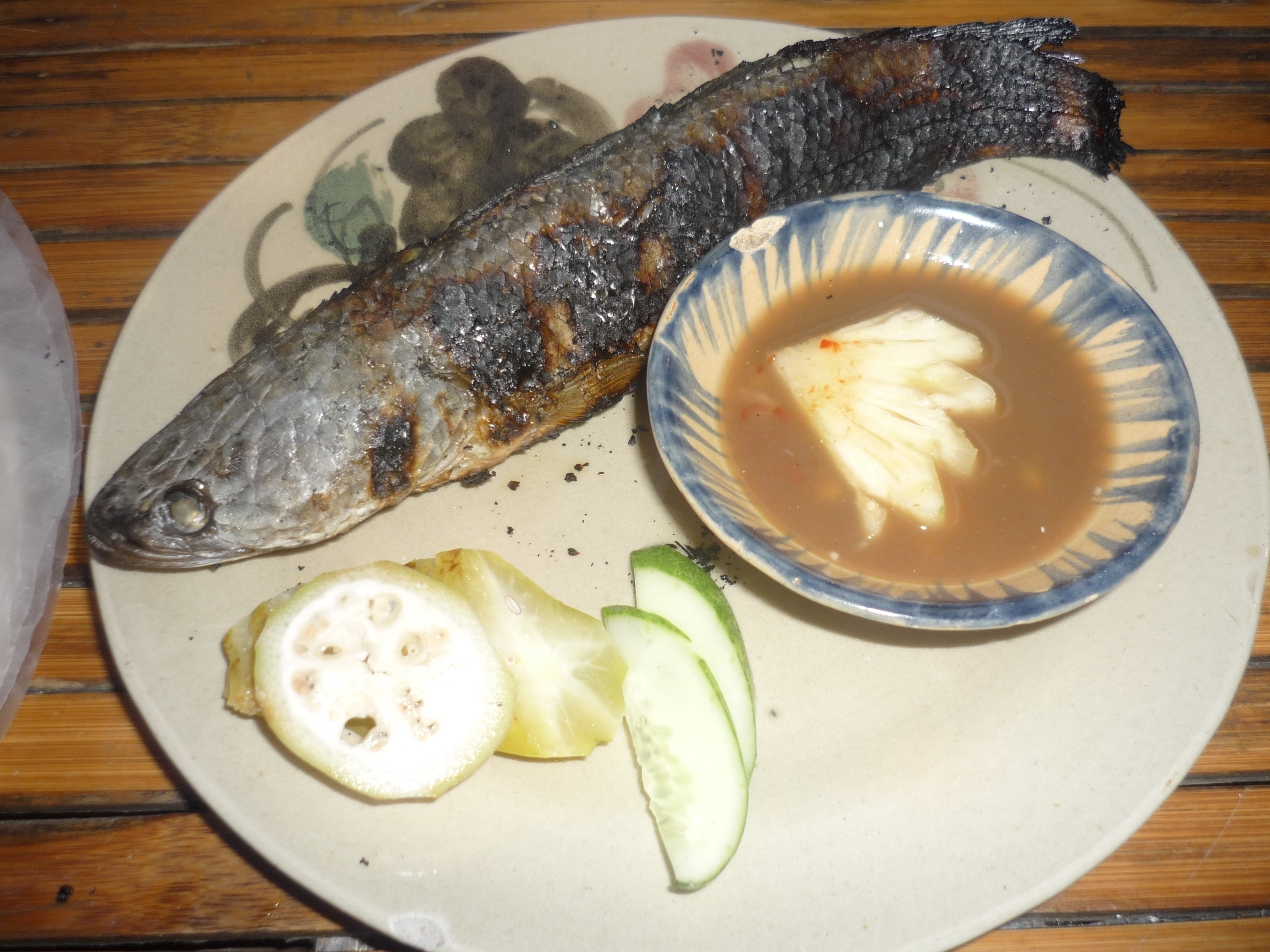 Vietnamese grilled snakehead fish